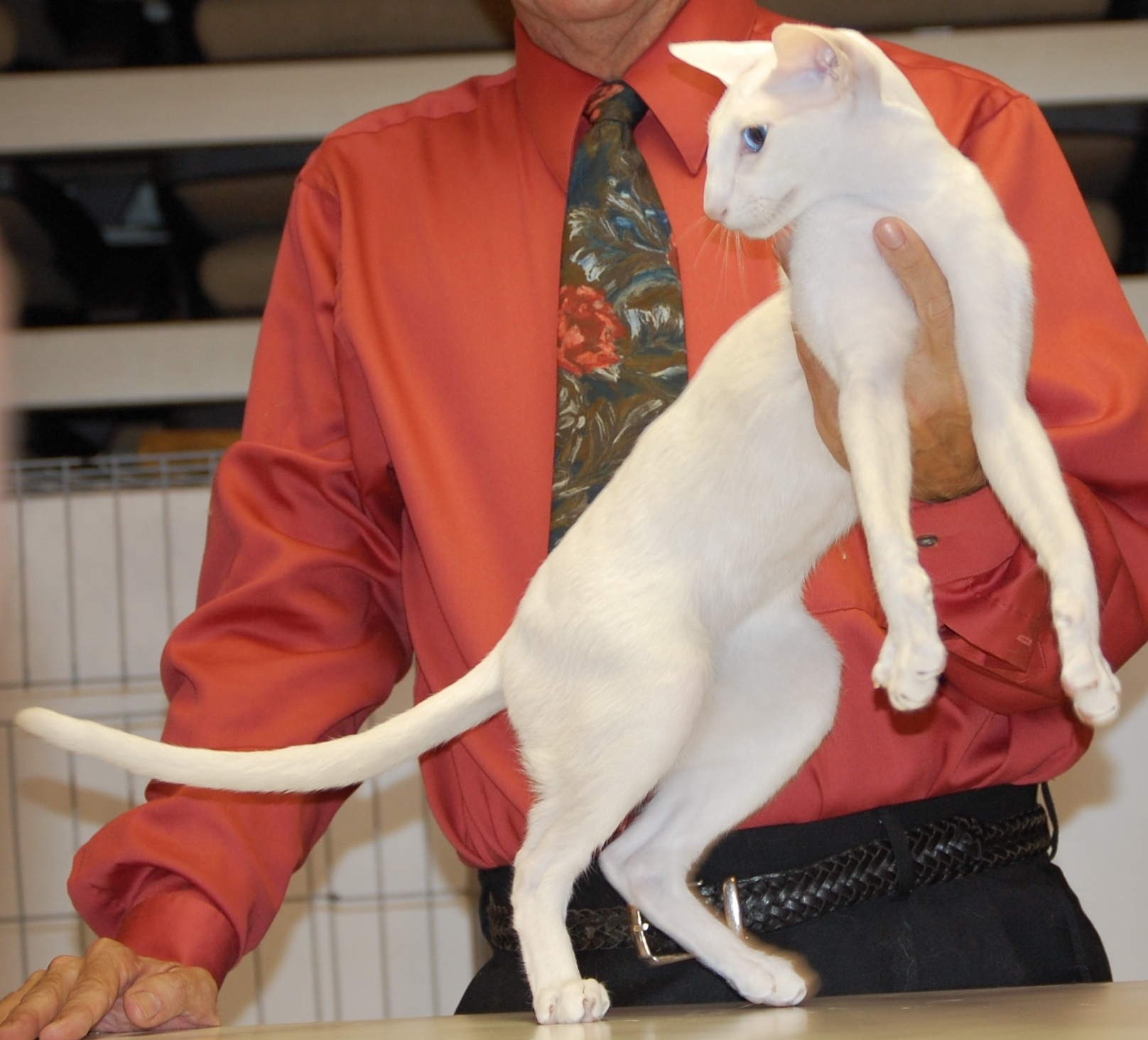 Cat Cat Show - Ft. Lauderdale - October 2008 Cat Show - Ft. Lauderdale - October 2008